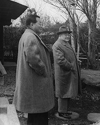 Former Japanese Prime Minister Shigeru Yoshida (1878–1967, in office 1946–57 and 48–54) and his son-in-law Rep. Takakichi Aso.